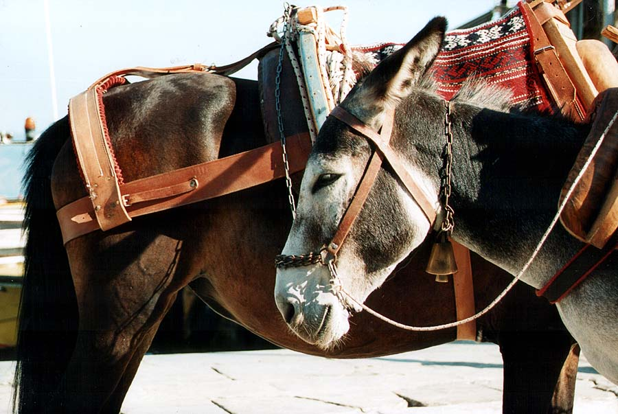 Donkeys on Hydra, Greece